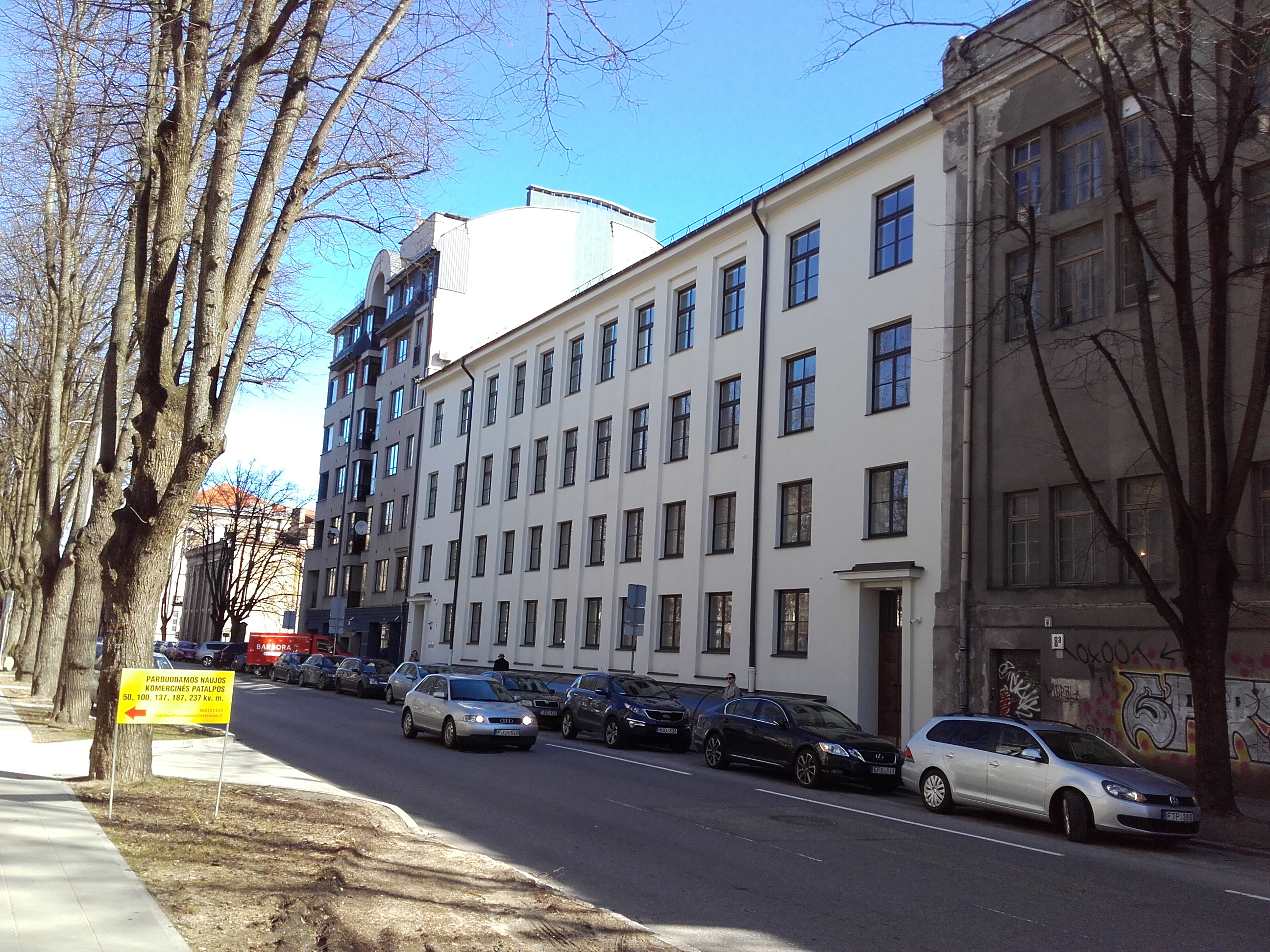 Archive building in Vilnius